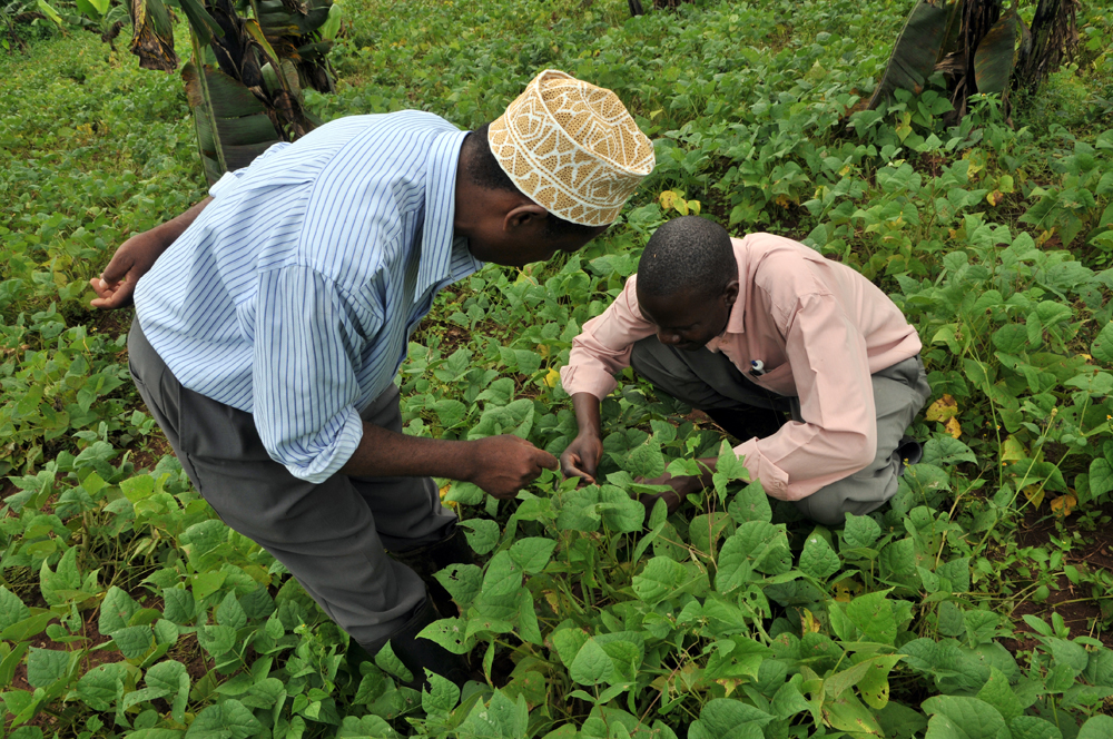 Pic by Neil Palmer (CIAT). Checking for bean pests and diseases in Kawanda, Uganda. Full caption to follow.